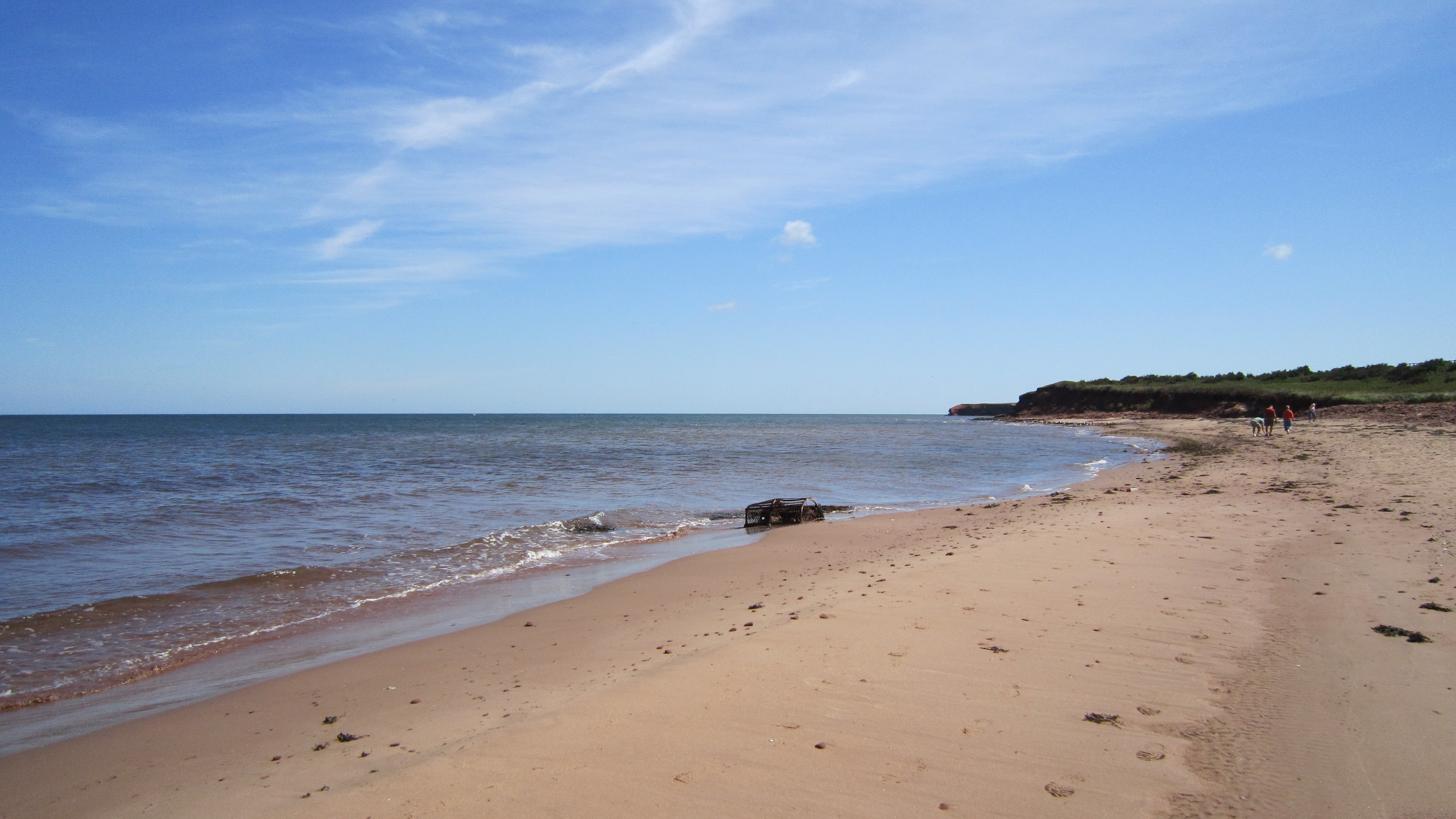 Cavendish Beach, Prince Edward Island, Canada